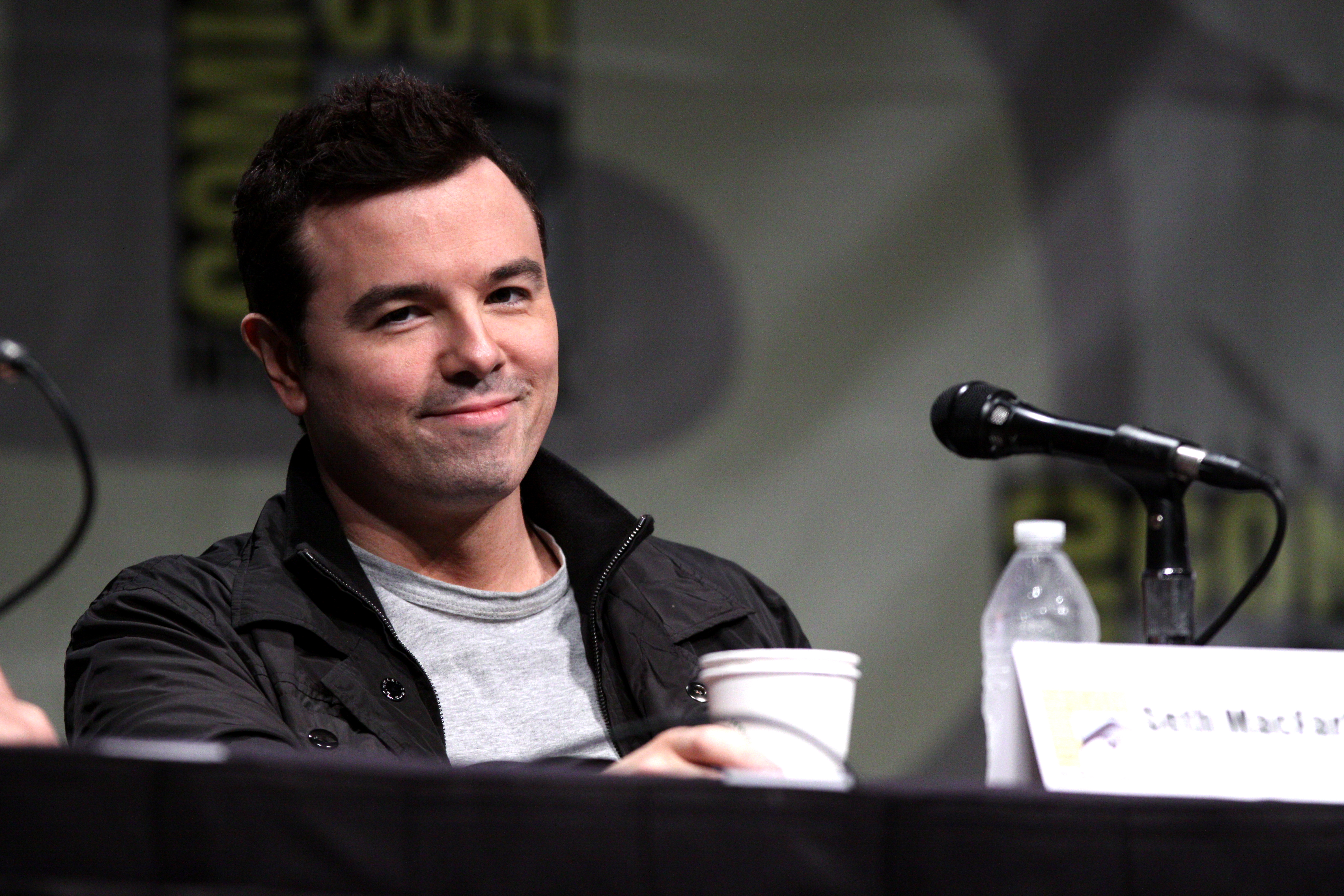 Seth MacFarlane speaking at the 2012 San Diego Comic-Con International in San Diego, California.